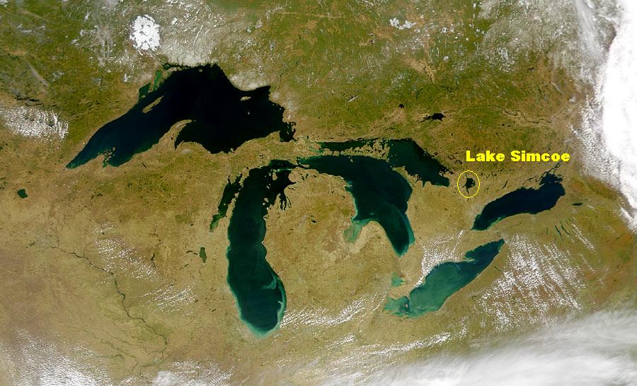 See Image:Great_Lakes_from_space.jpg for details; this version has Lake Simcoe circled and named